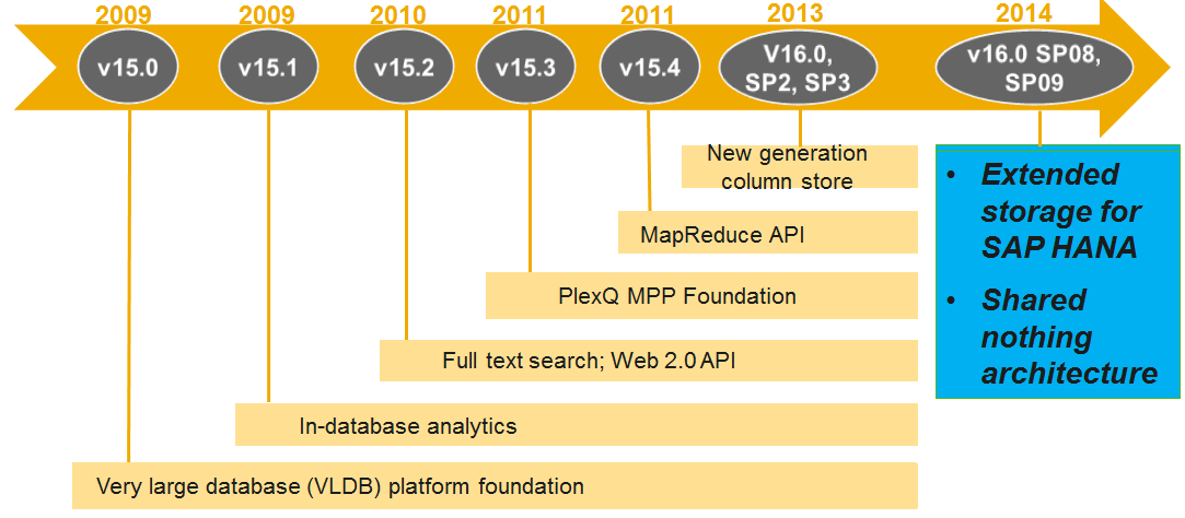 Version history of SAP IQ